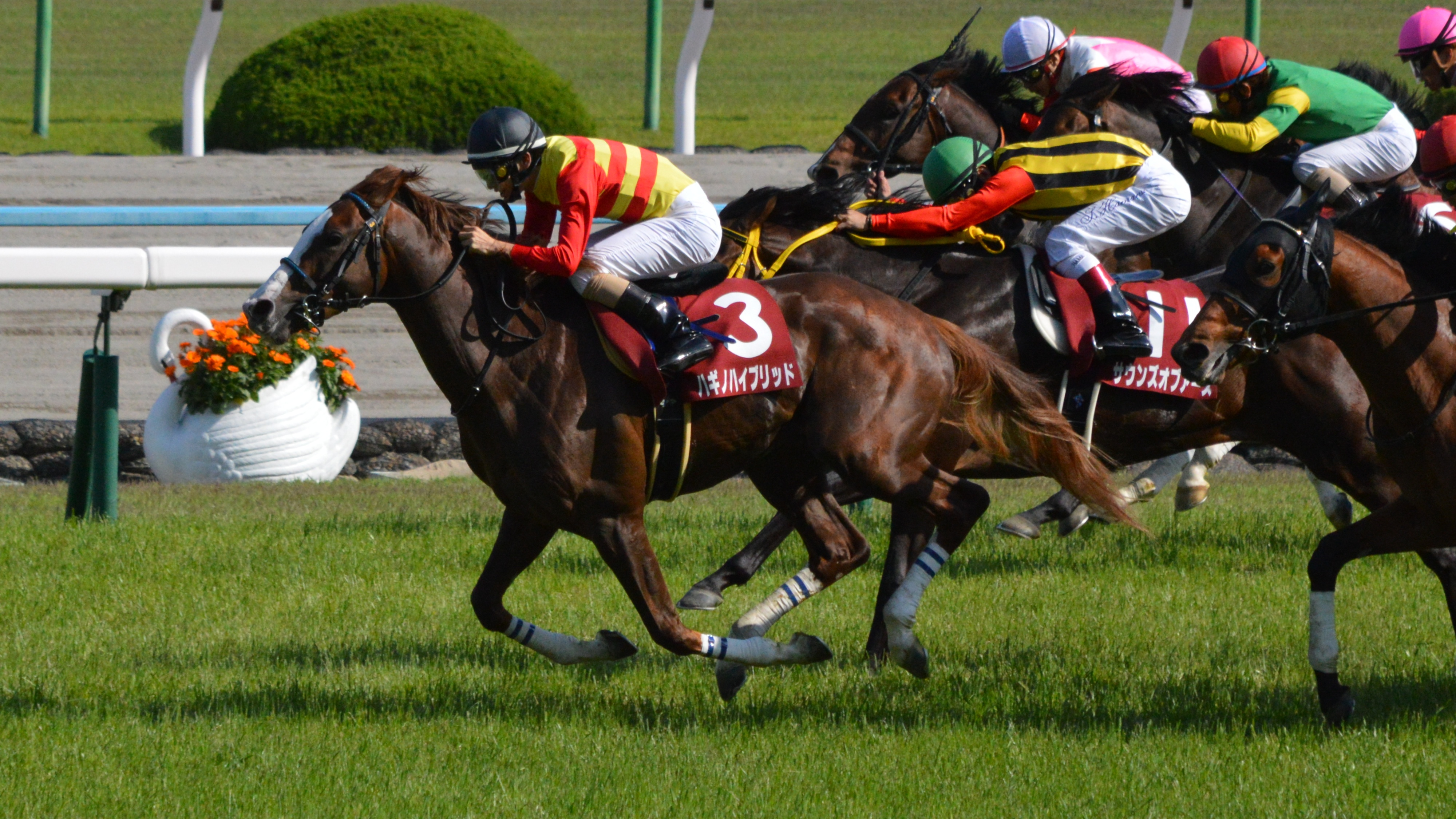 Japanese race horse Hagino Hybrid at Kyoto racecourse. Kyoto (JPN) 10 May 2014Kyoto Shimbun Hai (Grade 2) (Turf) (3yo) 1m3f Firm RankHorse NameOddsAgeWgtJockeyTrainer1st Hagino Hybrid (JPN)61/10C38-11Shinichiro AkiyamaKunihide Matsuda2ndSounds of Earth (JPN)127/10C38-11Suguru HamanakaKenichi FujiokaOthers are omitted. (18 horses entered in a race.)